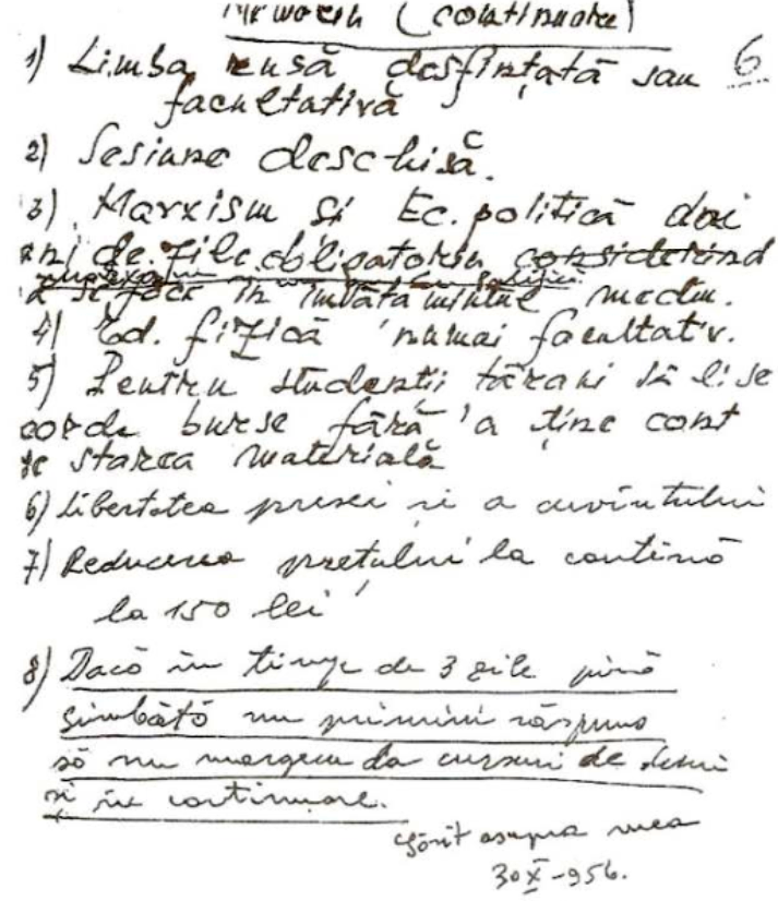 Demands listed by striking students of the various Timișoara colleges, before their movement was quashed by Romanian communist authorities. These are:"1) Russian as a foreign language to be terminated or made optional2) Open session [for each course]3) Marxism and Political Economy to be made compulsory for [only] two years, and possibly moved to secondary schools4) Physical Education to be made optional5) Peasant students should receive scholarships regardless of their material wealth6) Freedom of the press and free speech7) A reduction of cafeteria prices to 150 lei8) If no answer is sent for the next 3 days, down to Saturday, we shall refrain from attending classes on Monday and subsequent days."